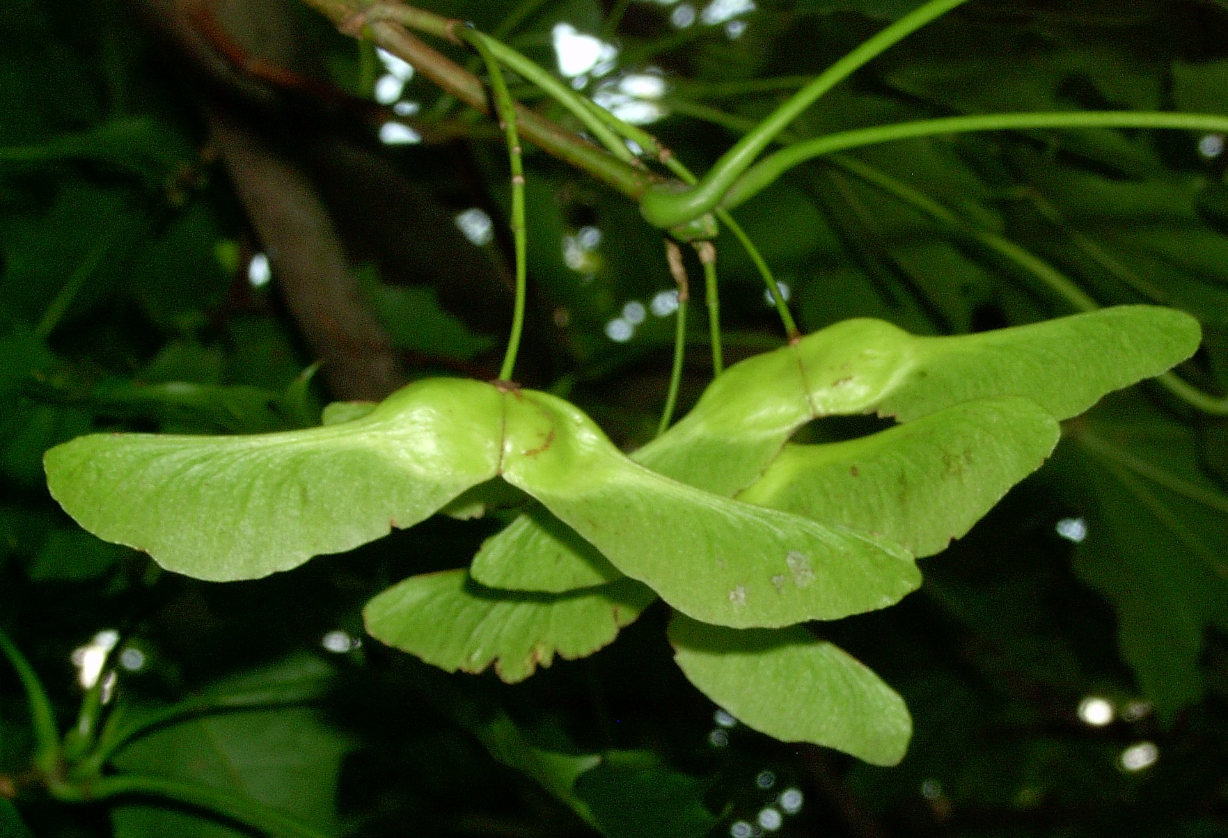 Acer platanoides, fruit. Gryfino, NW Poland